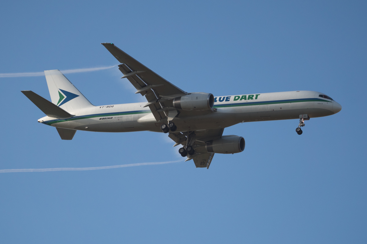 Blue Dart Boeing 757-200F registered VT-BDQ at Kempegowda Intl Airport Bengaluru